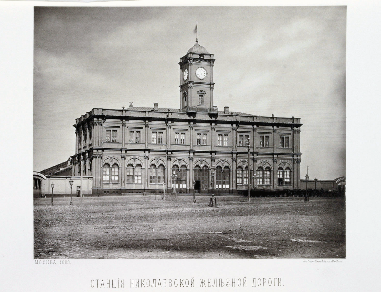 Plate 85. Nikolaevsky (now Leningradsky) Rail Terminal, Moscow.